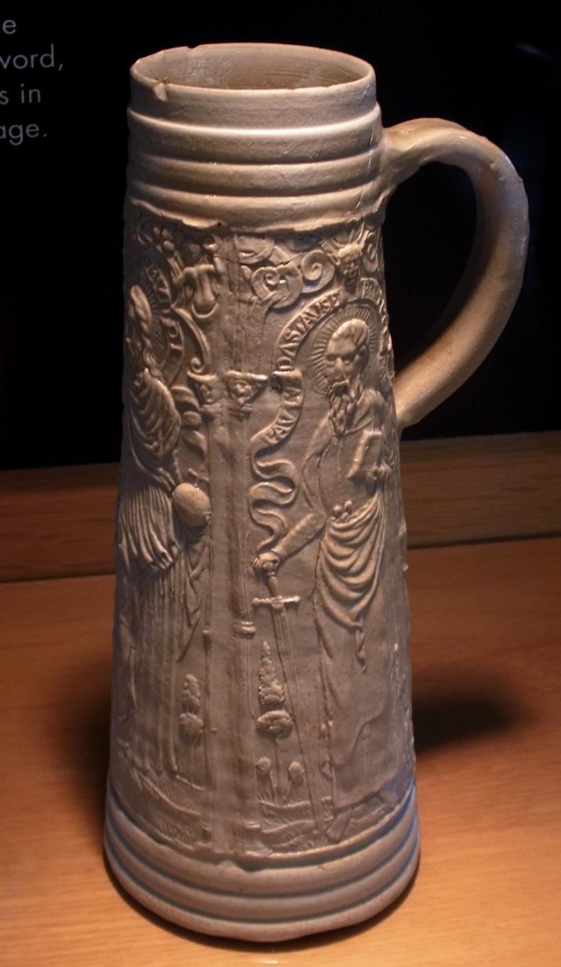 Beer tankard ("Schnelle") from Siegburg with depiction of Christ as Salvator Mundi and Peter and Paul (16th c; probably Johannes Hilgers, 1569) in the archeological collection of Centre Céramique, Maastricht, the Netherlands.